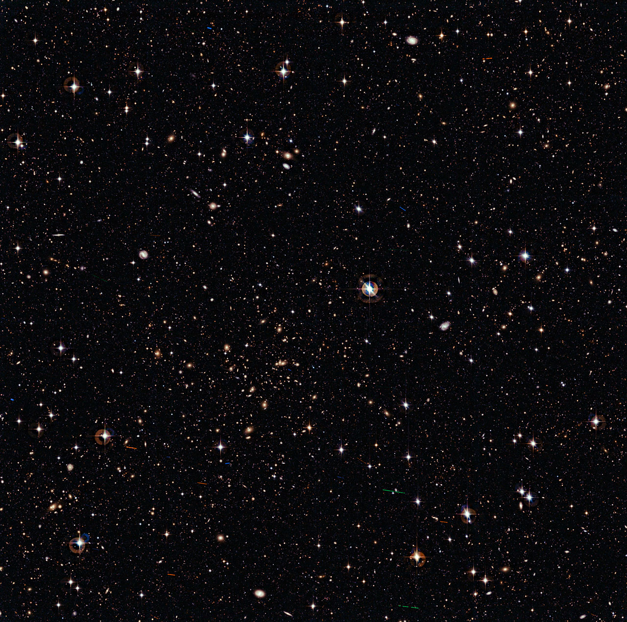 This wide-field, deep image reveals thousands of galaxies crowding an area on the sky roughly as large as the full Moon. These galaxies span a vast range of distances from us. Some are relatively close, as it is possible to distinguish their spiral arms or elliptical halos, especially in the upper part of the image. The more distant, instead, appear just like faint blobs — their light has travelled through the Universe for eight billion years or more before reaching Earth. Beginning in the centre of the image and extending below and to the left, a concentration of about a hundred yellowish galaxies identifies a massive galaxy cluster, designated Abell 315, about two billion light-years away from us. To complement the enormous range of cosmic distances and sizes surveyed by this image, a handful of objects much smaller than galaxies and galaxy clusters and much closer to Earth are dotted throughout the field: besides several stars, many asteroids are also visible as blue, green or red trails. This image has been taken with the Wide Field Imager on the MPG/ESO 2.2-metre telescope at ESO’s La Silla Observatory in Chile. It is a composite of several exposures acquired using three different broadband filters, for a total of almost one hour in the B filter and about one and a half hour in the V and R filters. The field of view is 34 x 33 arcminutes.